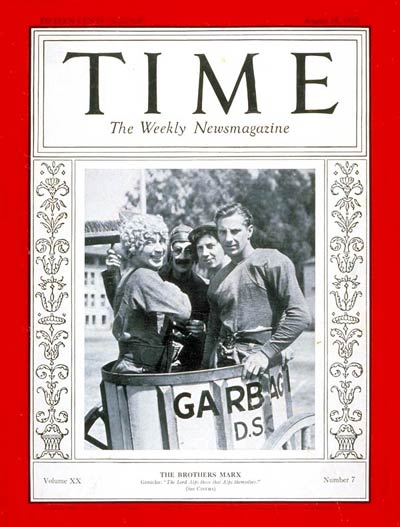 Time magazine, Volume 20 Issue 7, August 15, 1932The cover shows Groucho, Harpo, Chico & Zeppo Marx.